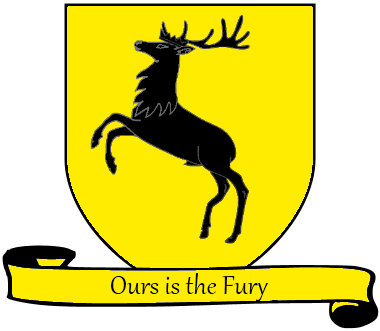 A fictional coat of arms. The coat of arms of House Baratheon. Shows a crowned black stag on a yellow field. Underneath is a scroll bearing a motto: Ours is the Fury. The following Commons images were used to create this image: File:Old French Escutcheon.svg by Masur (talk · contribs) File:Coat-elements-2.png by Qyd (talk · contribs) (scroll on bottom) File:Blason famille fr Dunand1.svg by Stella3 (talk · contribs) (stag) File:Scottish crest badge element - Antique Crown.svg by Celtus (talk · contribs)